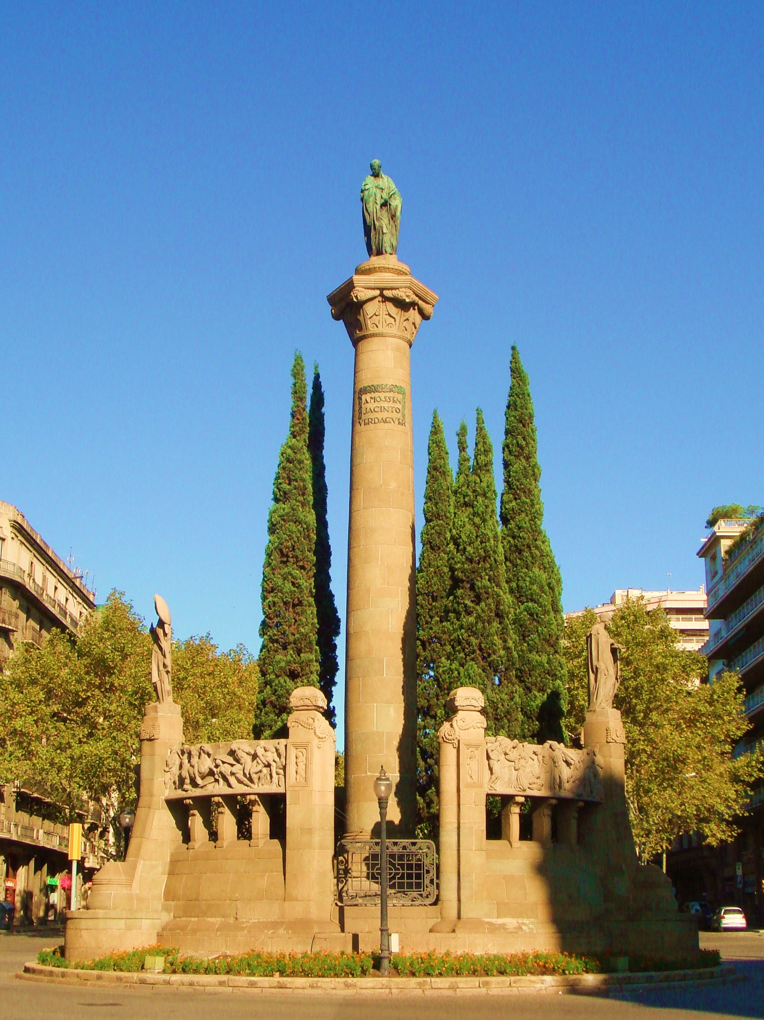 Verdaguer Monument is a monument dedicated to the Catalan poet Jacint Verdaguer. It is located at the namesake square on Diagonal avenue in the area of Dreta de l'Eixample neighborhood in Barcelona, Catalonia, Spain.